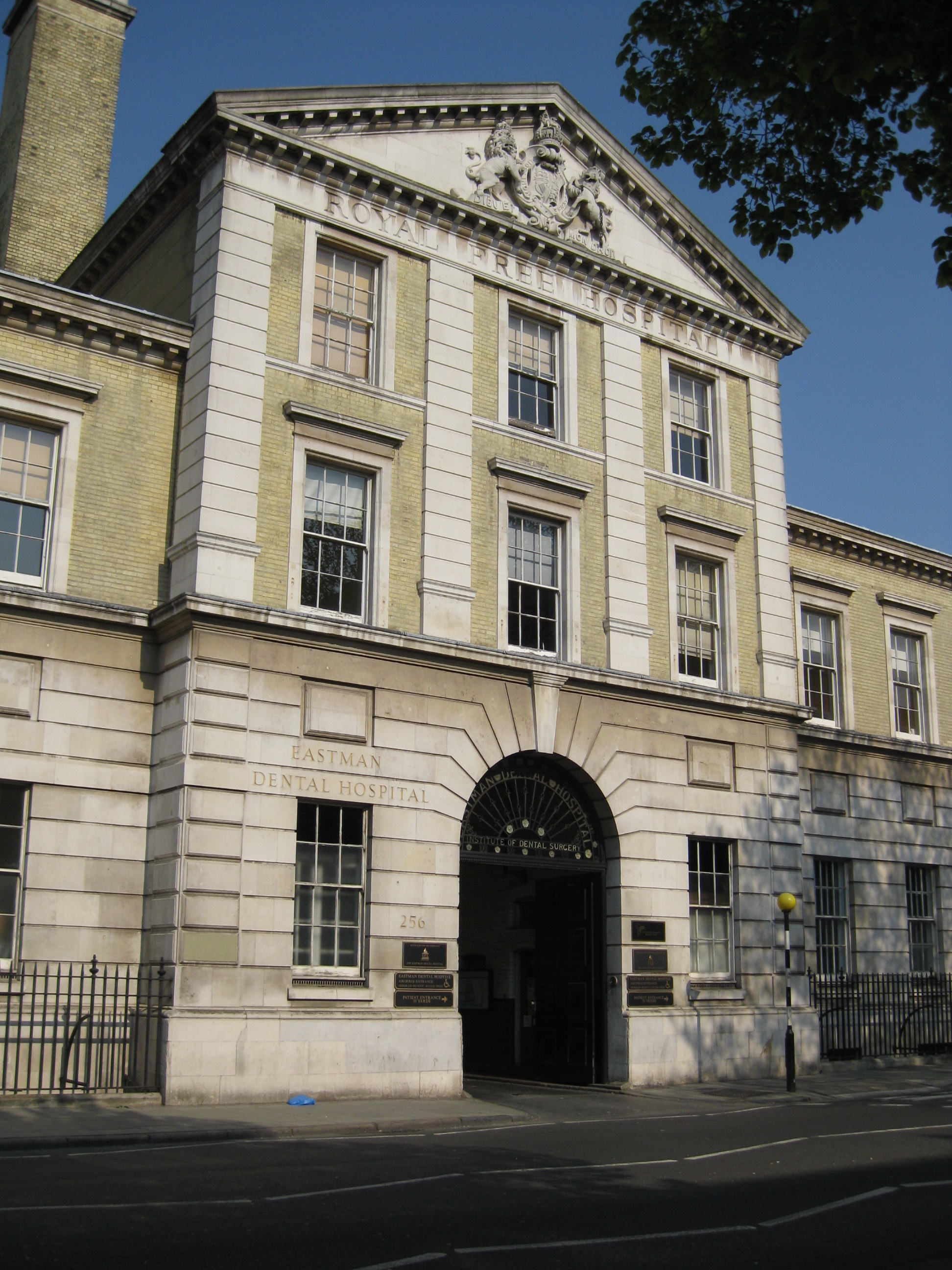 Eastman Dental Hospital, Grays Inn Road, London